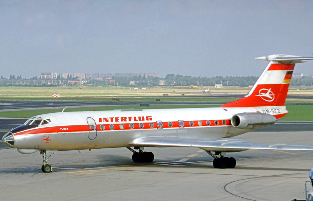 Tupolev Tu-134 DM-SCZ of Interflug at Amsterdam Airport in 1977